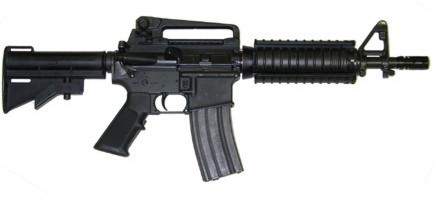 A M4A1 with a Close Quarter Battle Receiver. The barrel length is 10.3 inches.